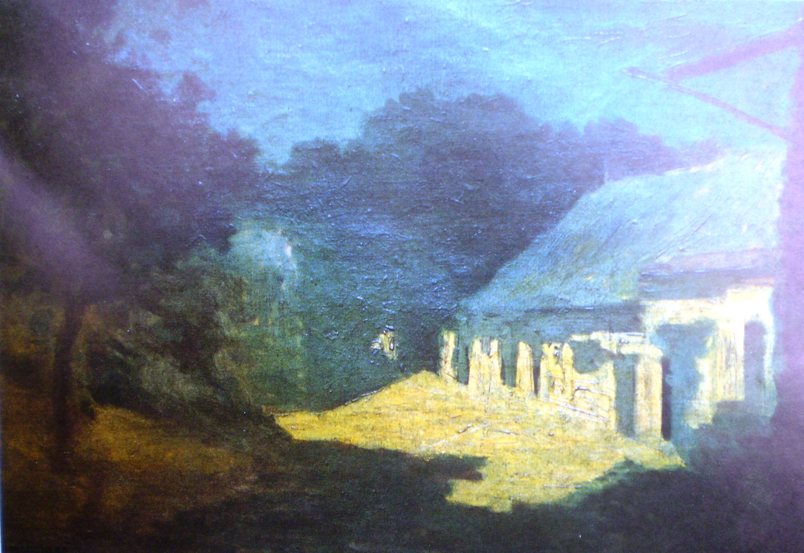 Original color photograph by Daniel Menassé.